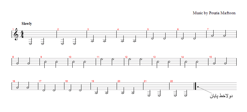 دولاخط پایان علامتی است که در انتهای نتهای یک آهنگ می آید و نشان دهندۀ پایان قطعه موسیقی است